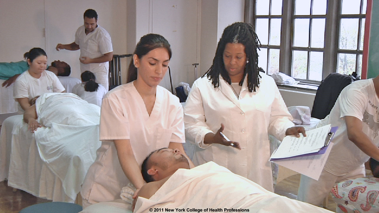 Photo showing a New York College of Health Professions instructor and students in a NY College massage technique class